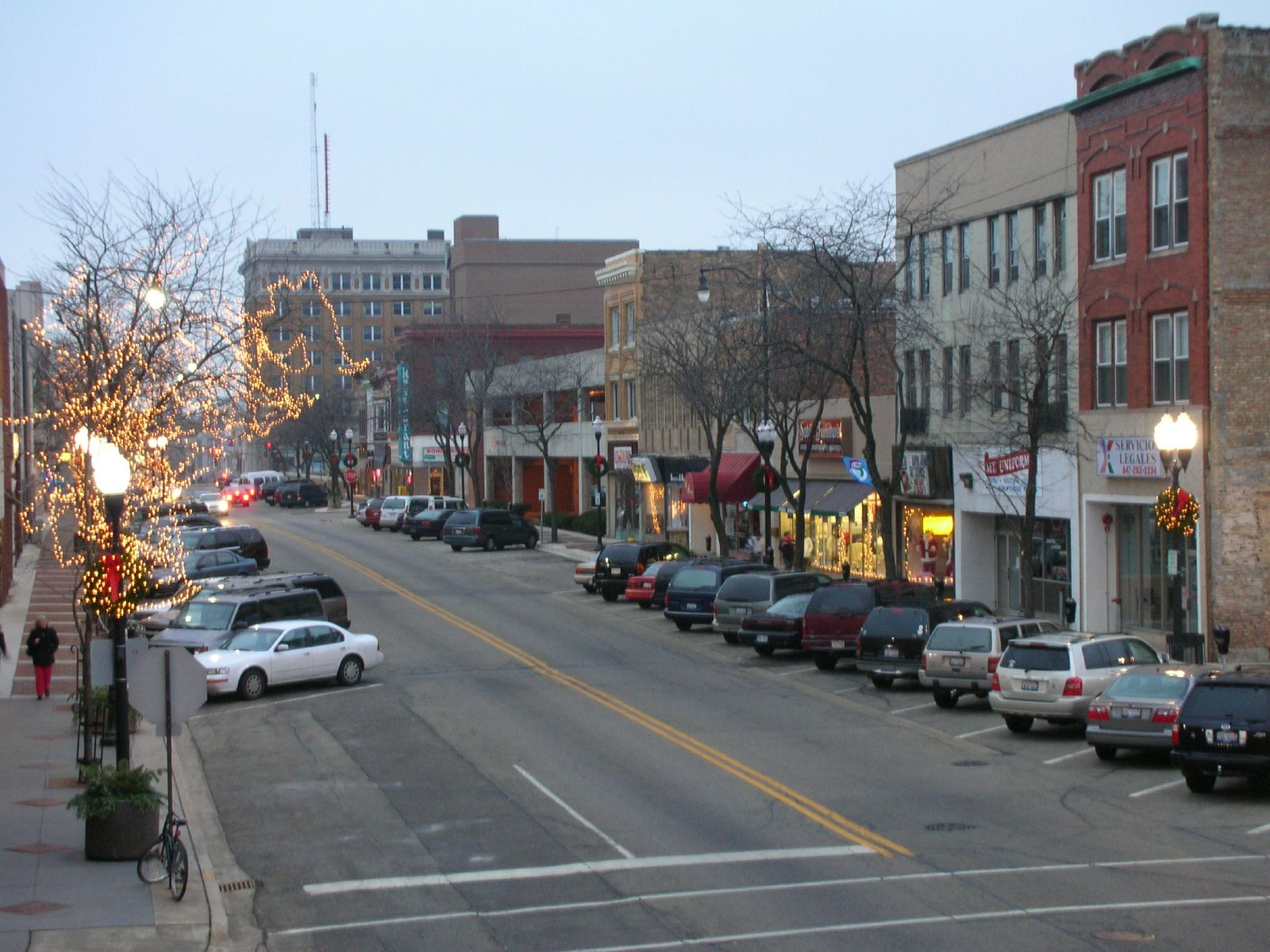 Waukegan, IL Downtown During the Holidays